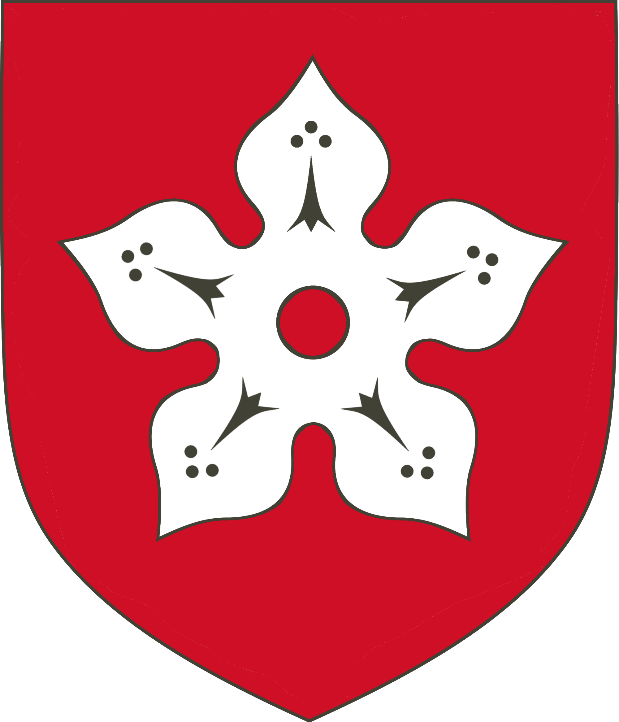 Coat of arms of the English city of Leicester. Blazon: Gules, a cinquefoil ermine pierced of the field. Generally referred to as "Bellomont arms", referring to the de Beaumont (Latinized to Bellomont) family, Earls of Leicester.